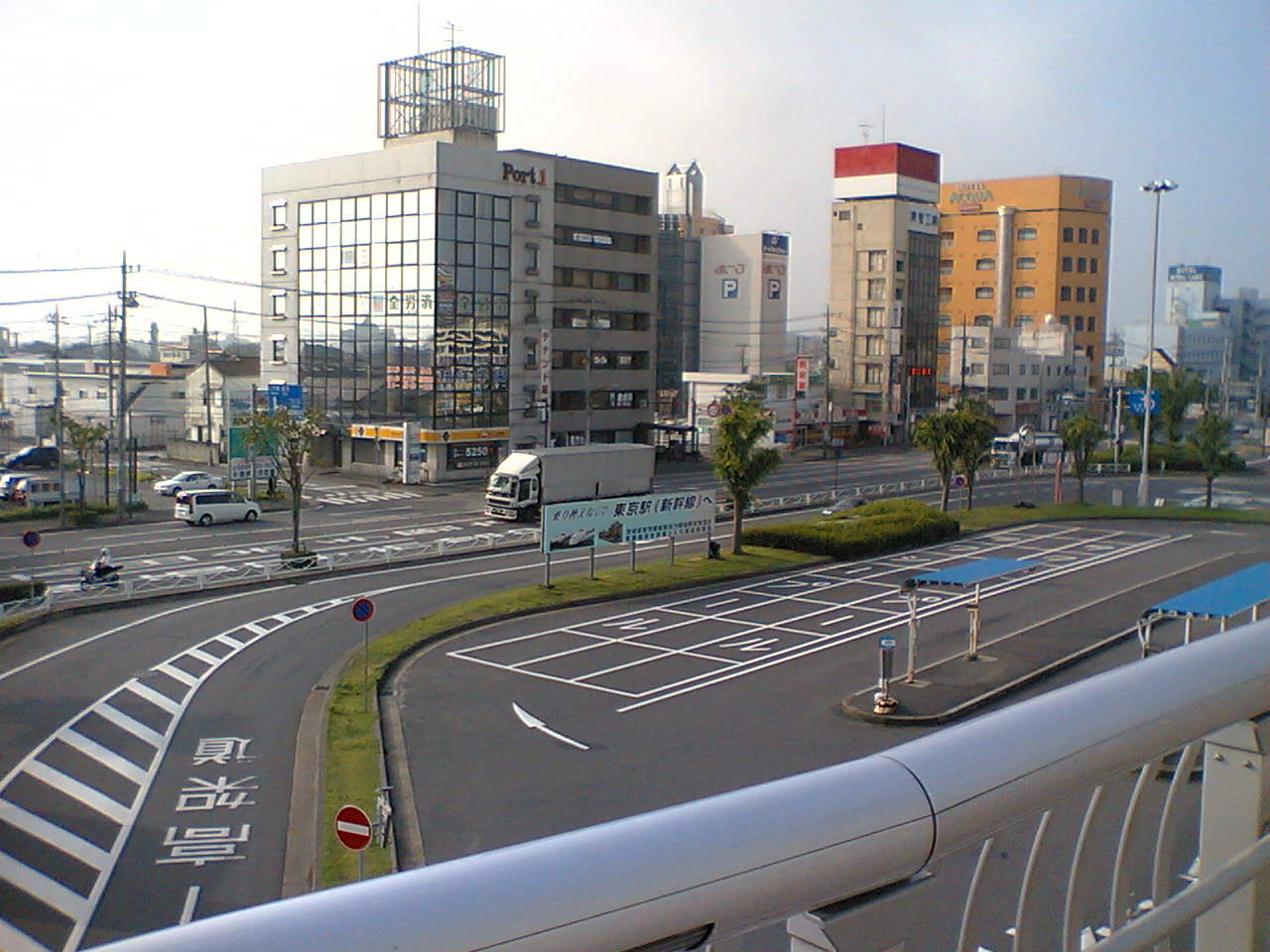 Scenery of the Tsuchiura station square, Tsuchiura, Ibaraki prefecture, Japan.